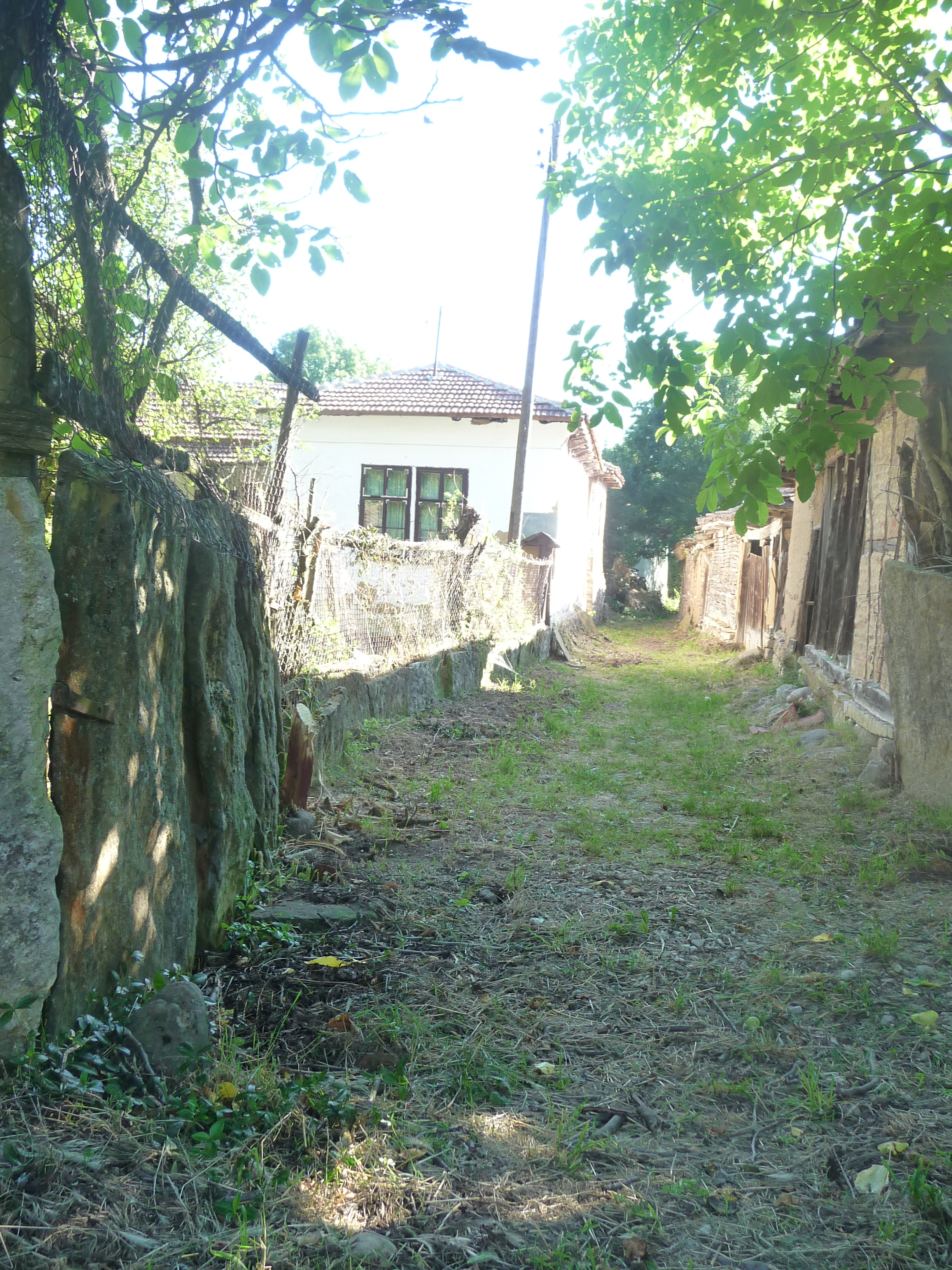 A street in Kamenitsa, Western Bulgarian Outlands, today in municipality of Dimitrovgrad (Tsaribrod), Serbia